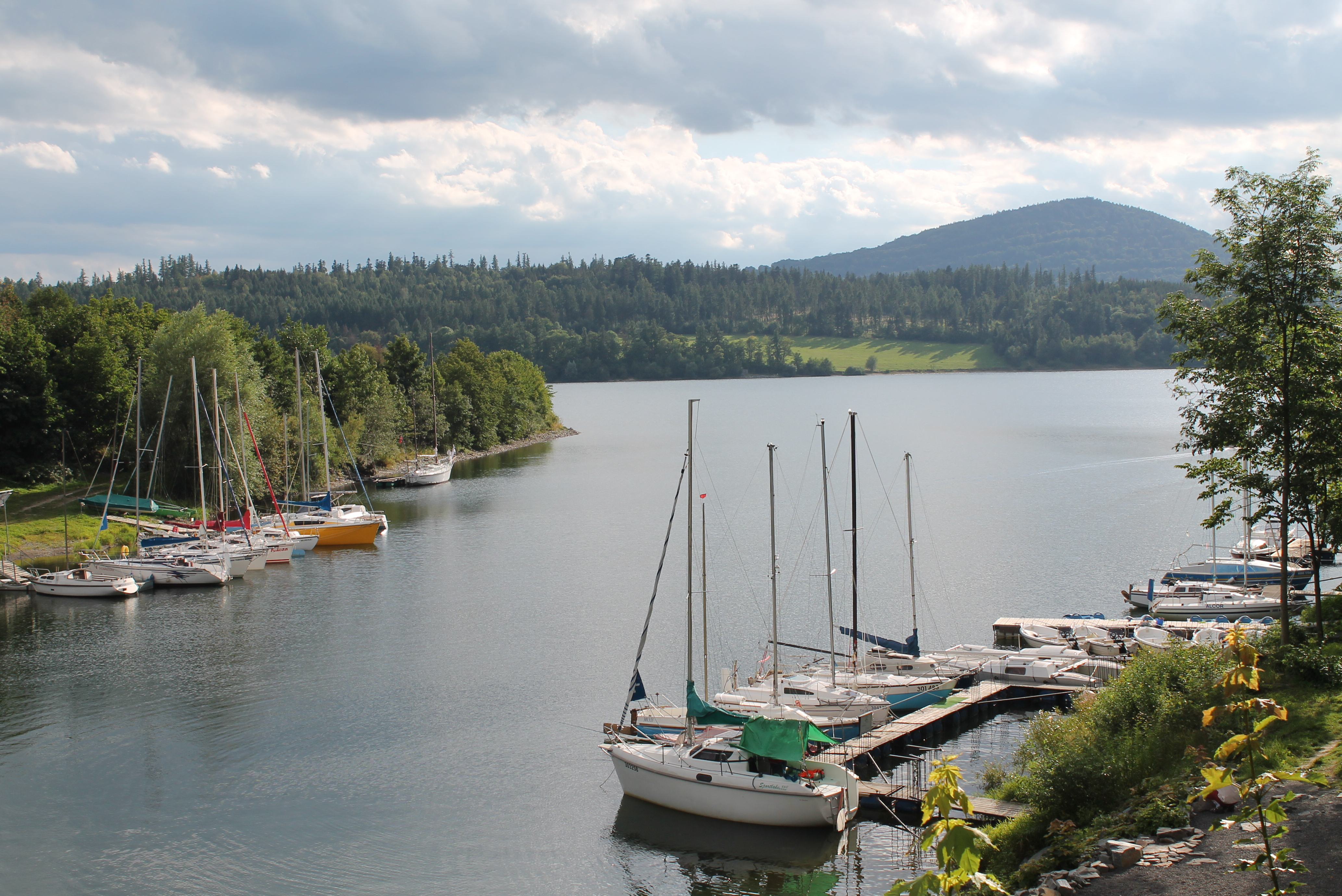 Leskovec nad Moravicí, Bruntál District, Czech Republic